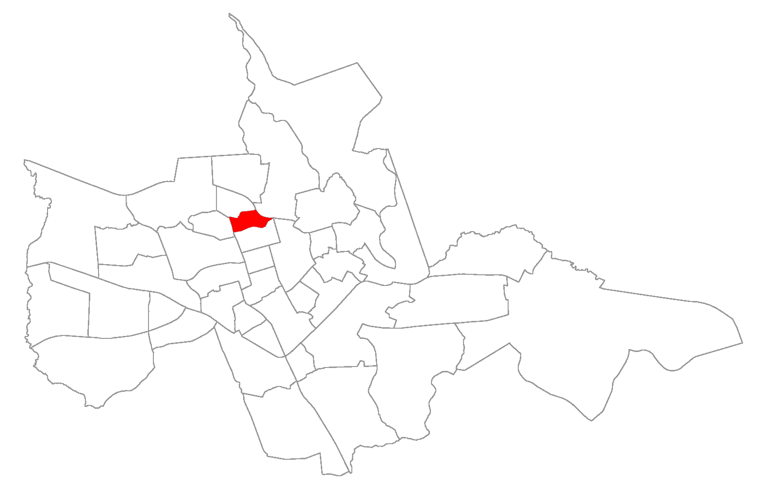 neighborhood/district of Santa Maria, Rio Grande do Sul